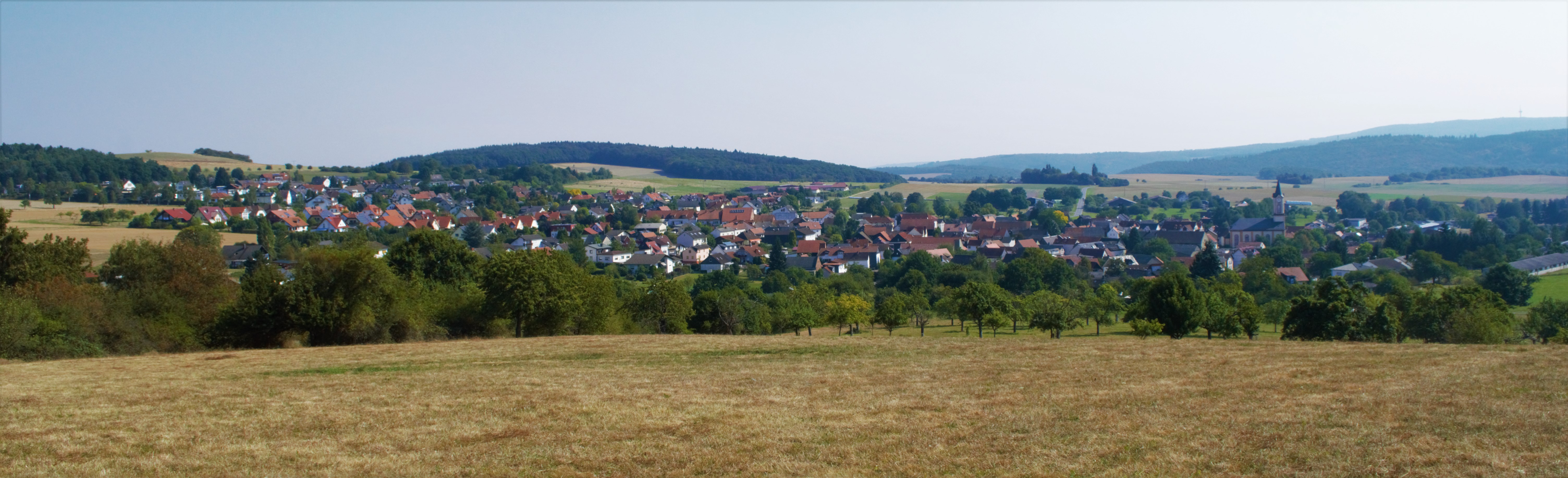 Overview of Eschbach (Usingen)